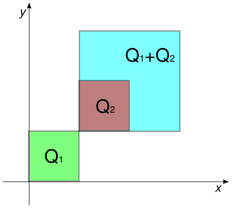 The Minkowski sum of two identical squares is a square whose edge is the double of the original edges.